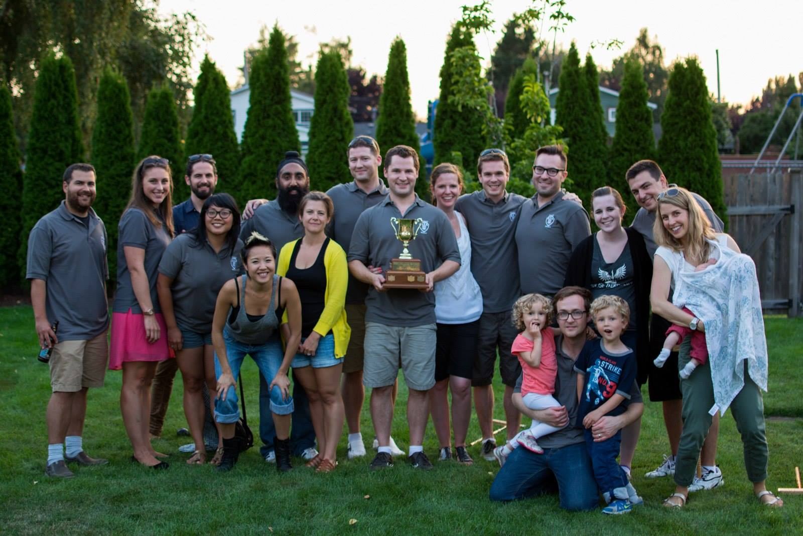 A group photograph of the participants in the 2014 Wile Cup championship.